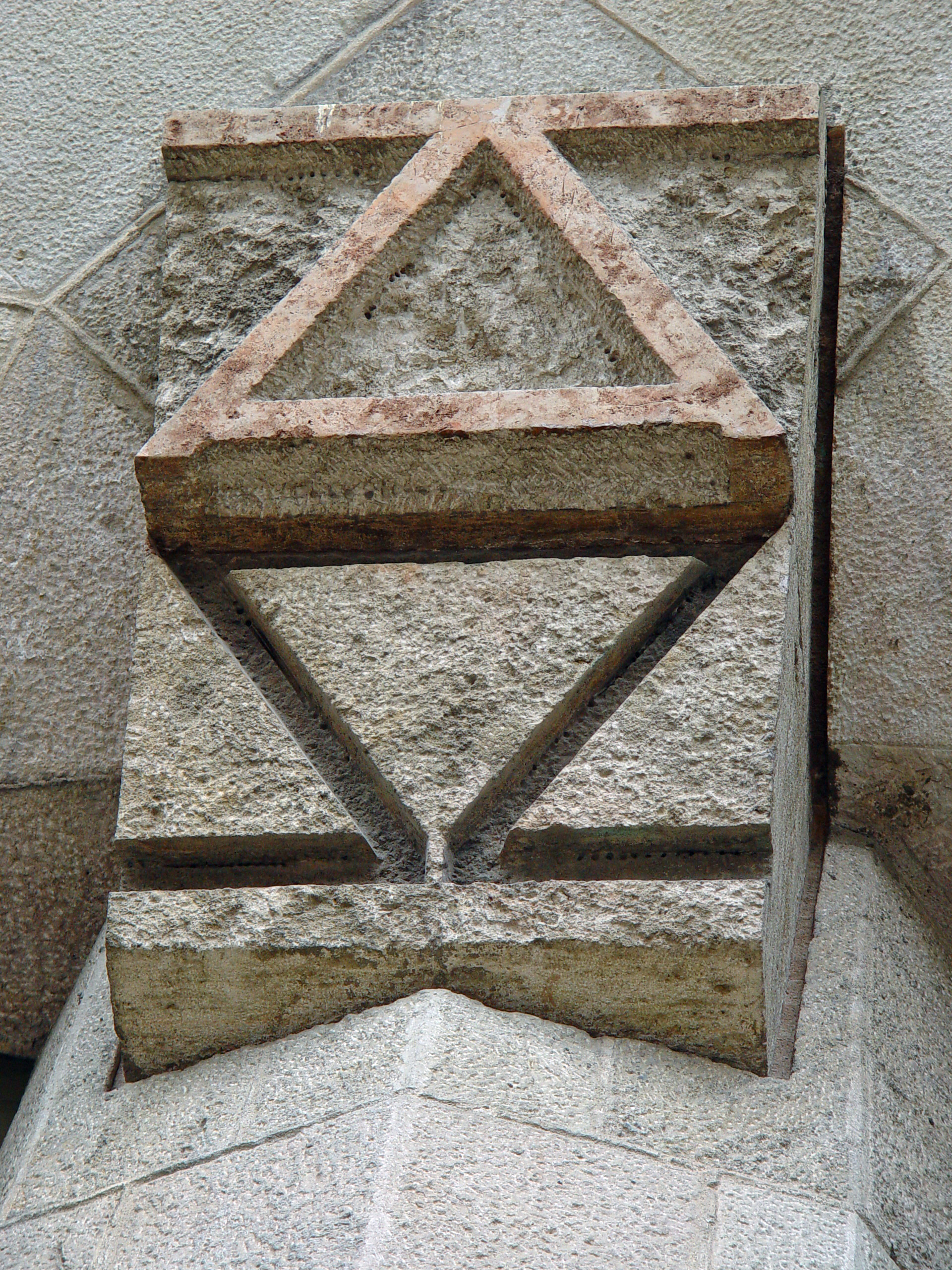 Stylized Alpha and Omega carving at entrance to Antoni Gaudi's Sagrada Família (Barcelona).